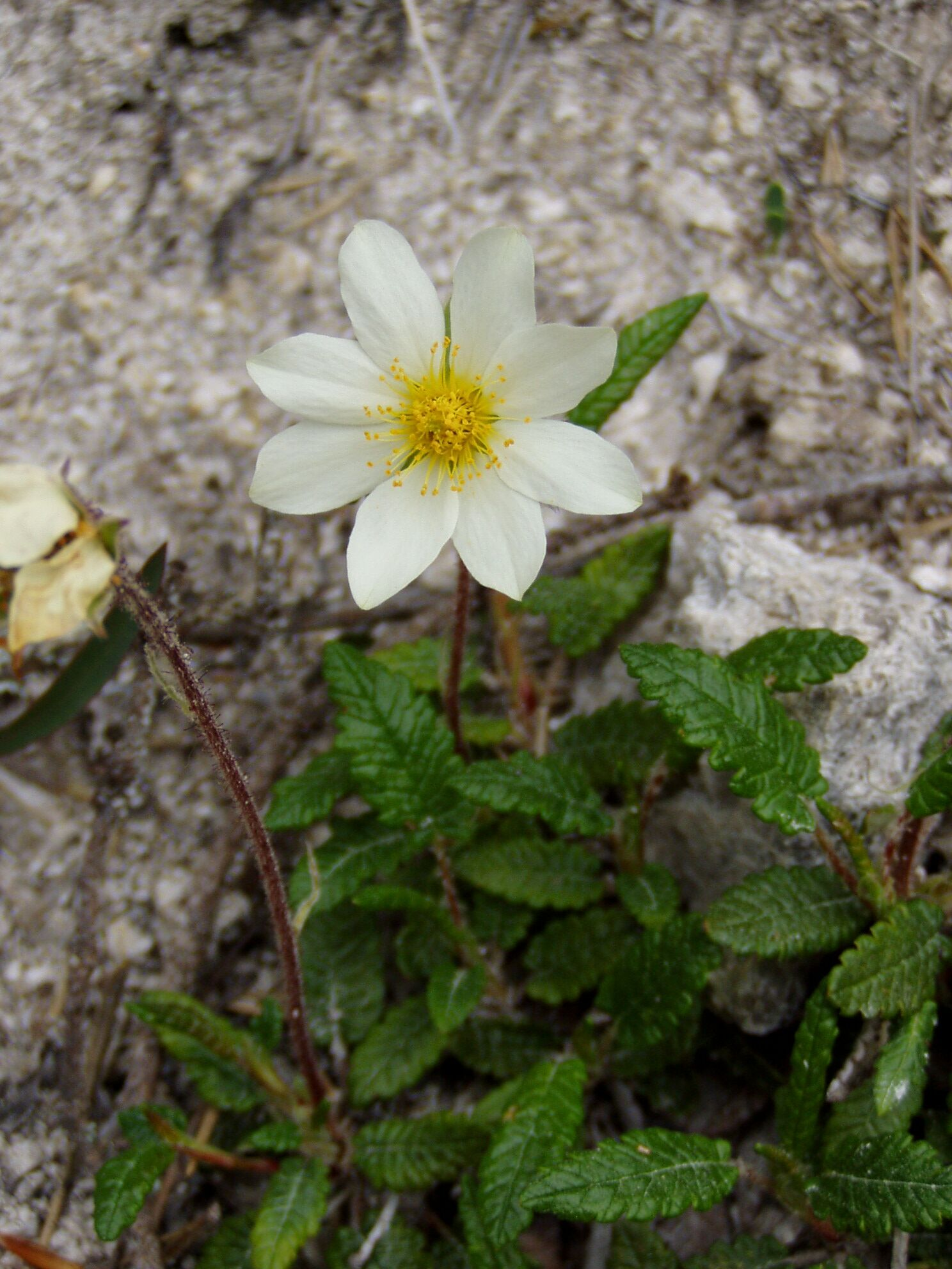 Dryas octopetala, Tscheppaschlucht, Karawanken, Carinthia